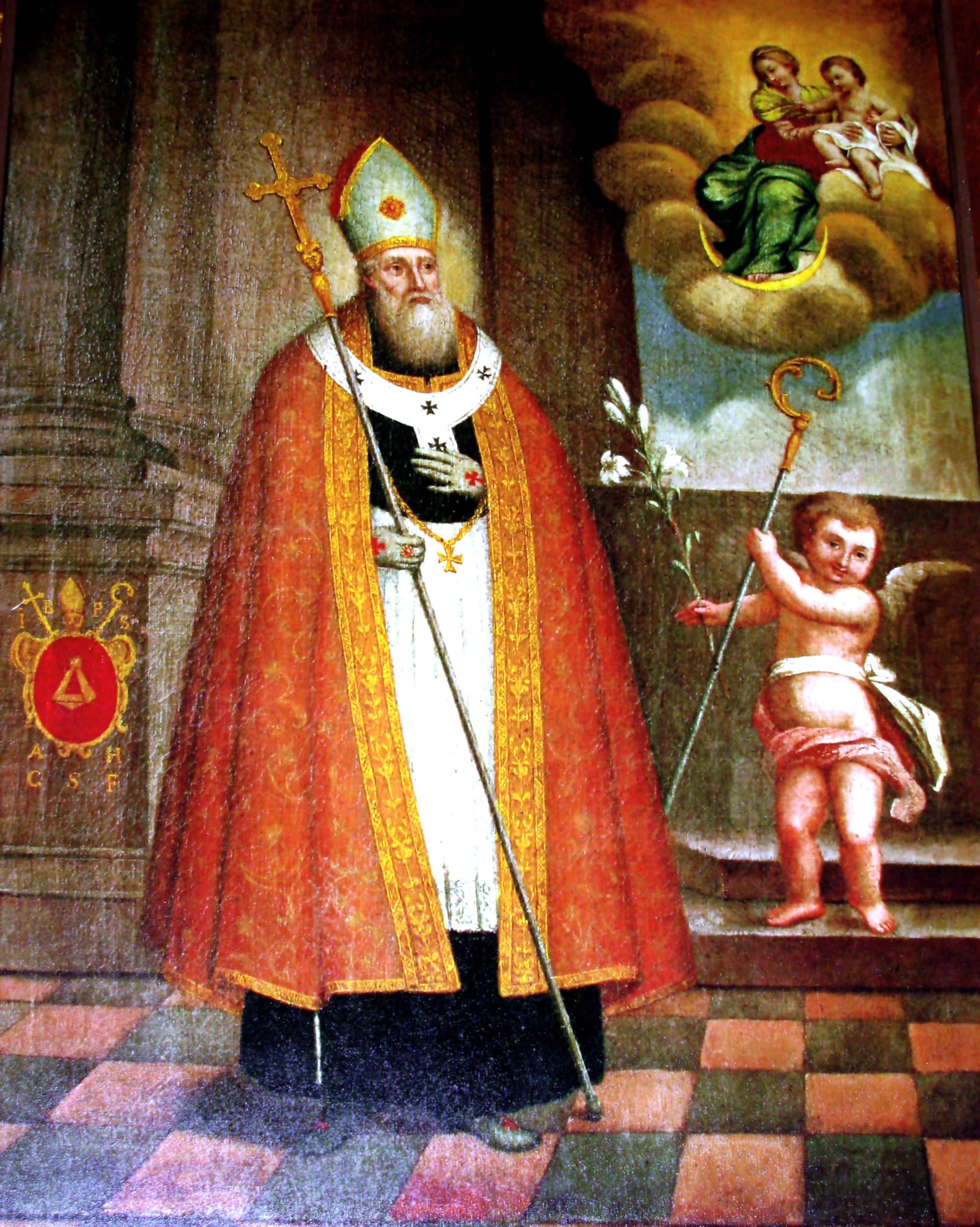 Jakub Strzemię (Jakub Strepa) in Kalwaria Pacławska church